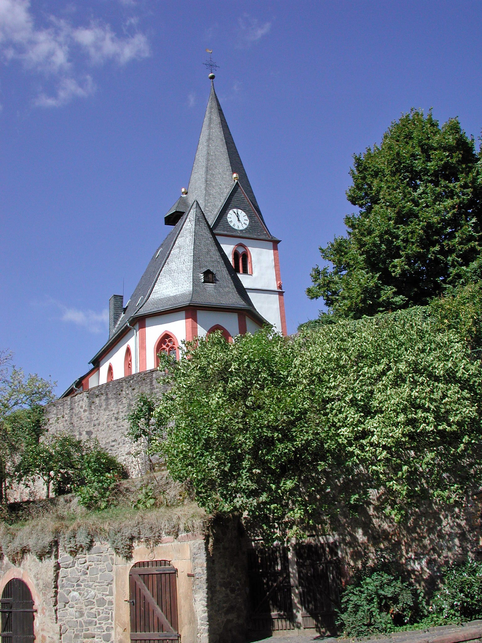 x-default